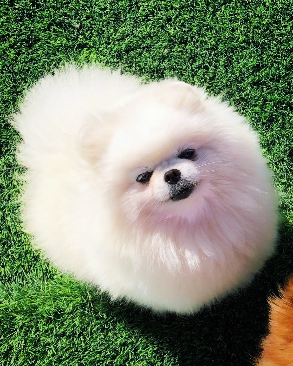 White Pomeranian